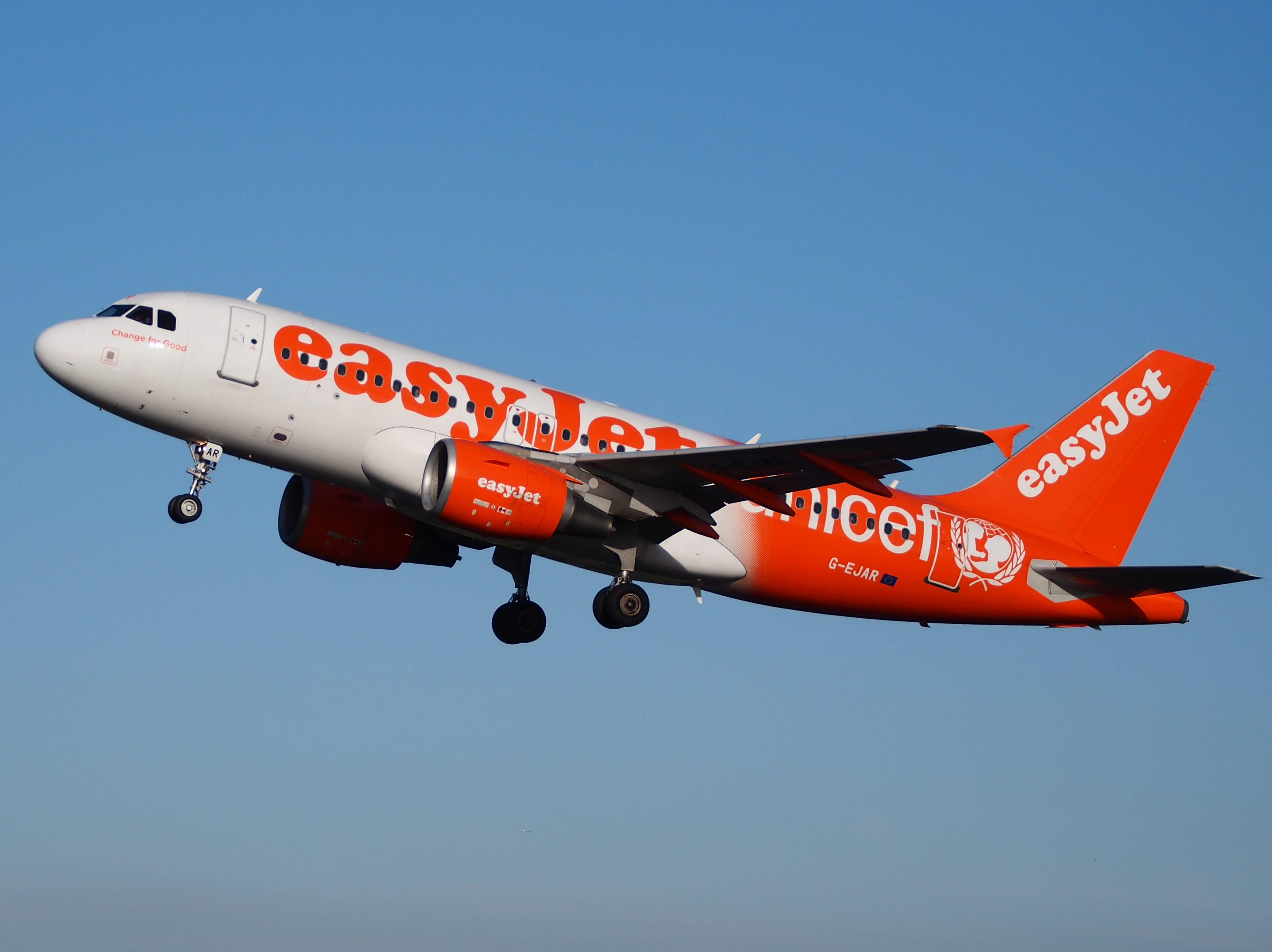 Photographed at Amsterdam Schiphol Airport (AMS - EHAM), The Netherlands.